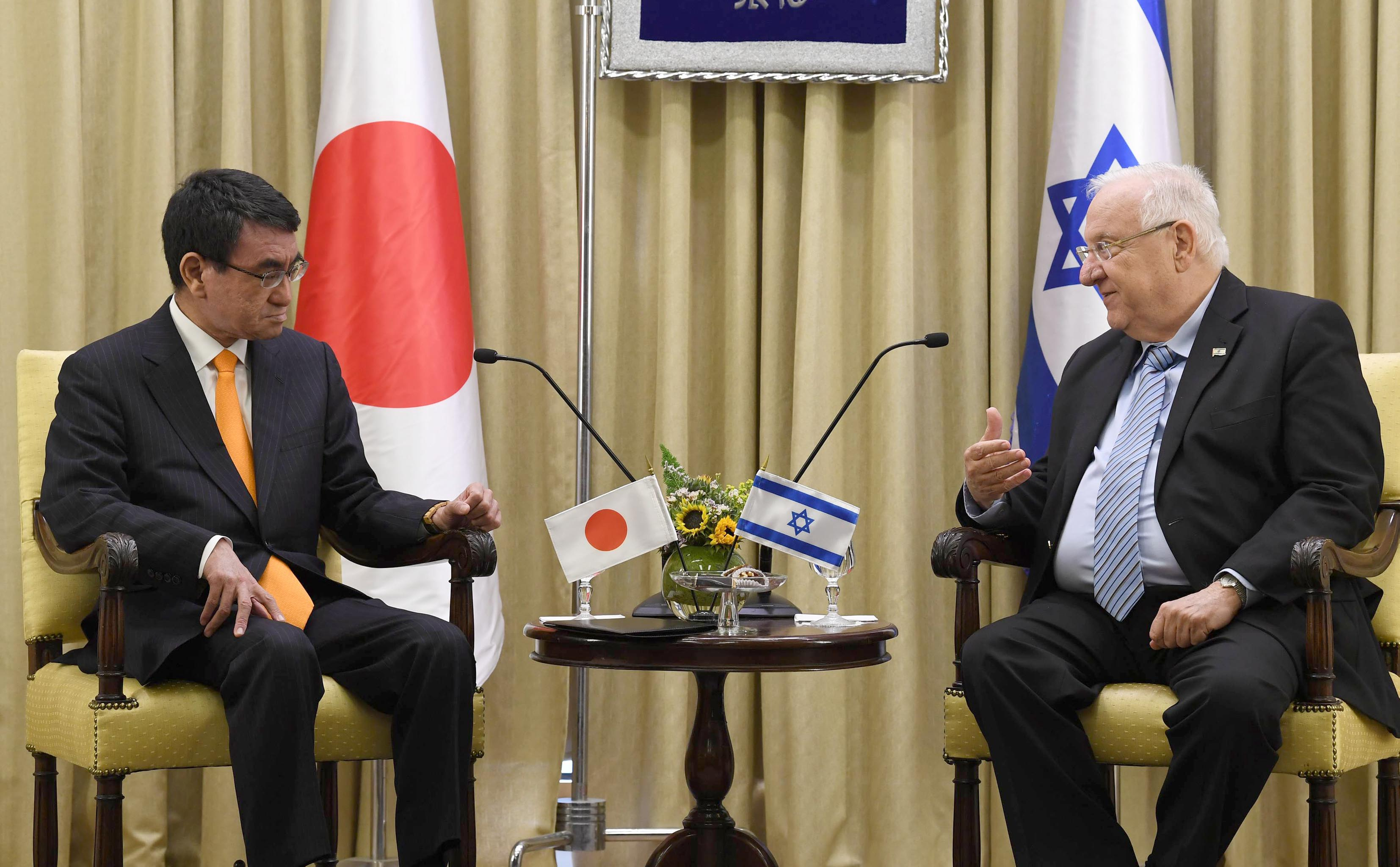 President of Israel, Reuven Rivlin, at a meeting with the Minister of Foreign Affairs of Japan, Tarō Kōno. Monday, December 25, 2017. Photo Credit: Mark Neyman / GPO.